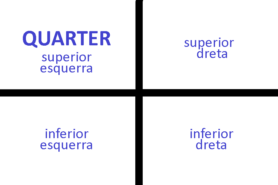 The canton of a flag.